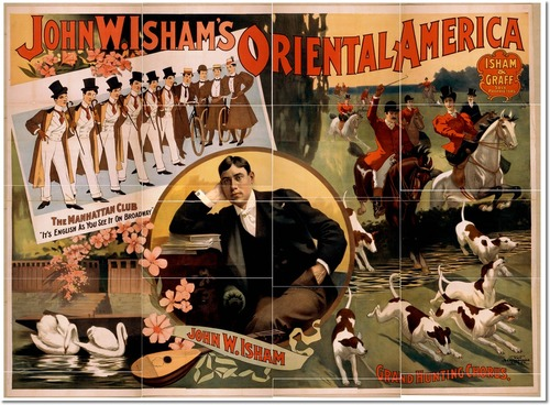 Poster for John W. Isham's Oriental America